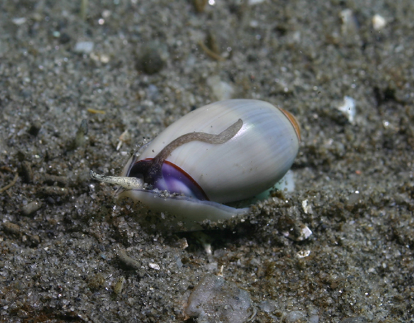 The olive snail Olivella biplicata can vary in color from near white to almost black